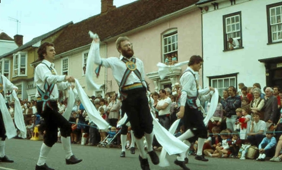 Thelwall Morrismen at Thaxted Ring Meeting Visiting morris dancers from Warrington perform a traditional dance from Cheshire at a meeting of the Morris Ring in 1983.